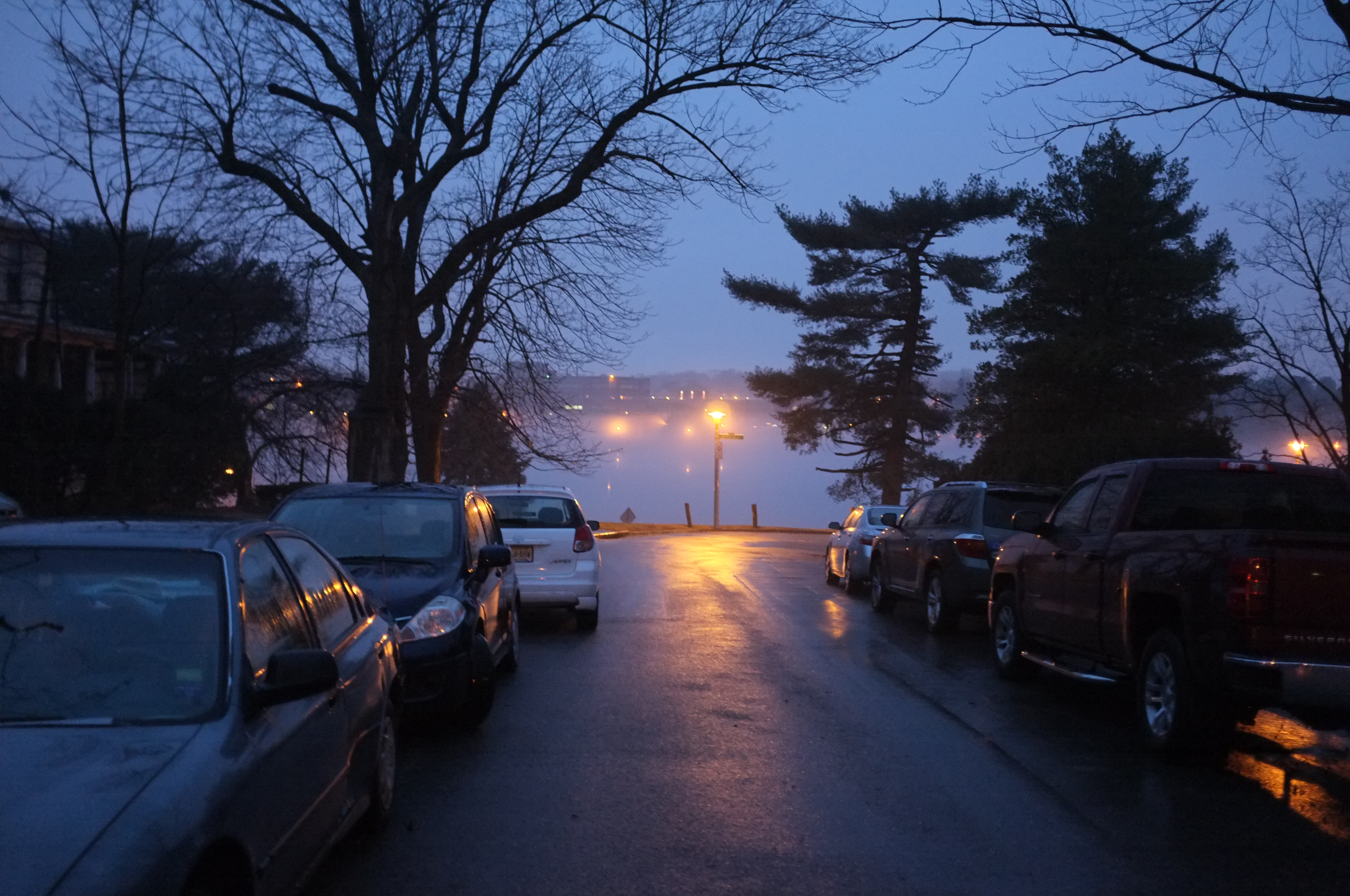 Lake Montebello, taken from 2100 block of Erdman Ave